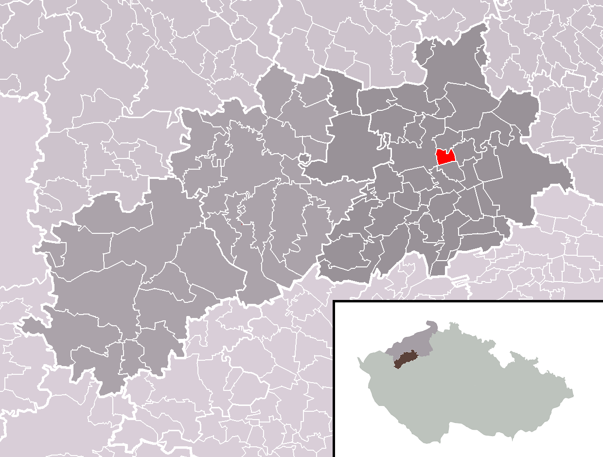 Location of Černčice municipality within Louny District and administrative area of Louny as a Municipality with Extended Competence.